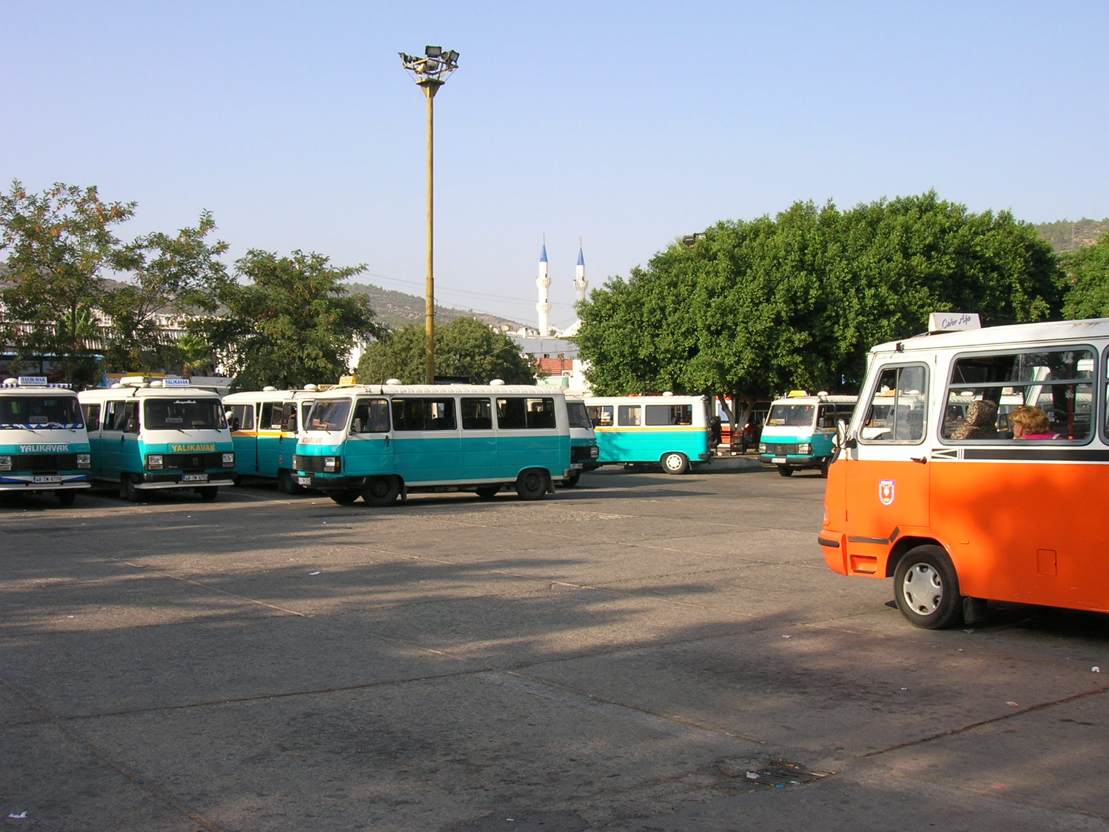 Peugeot J9 buses in Bodrum, Turkey. Dolmuş operator.